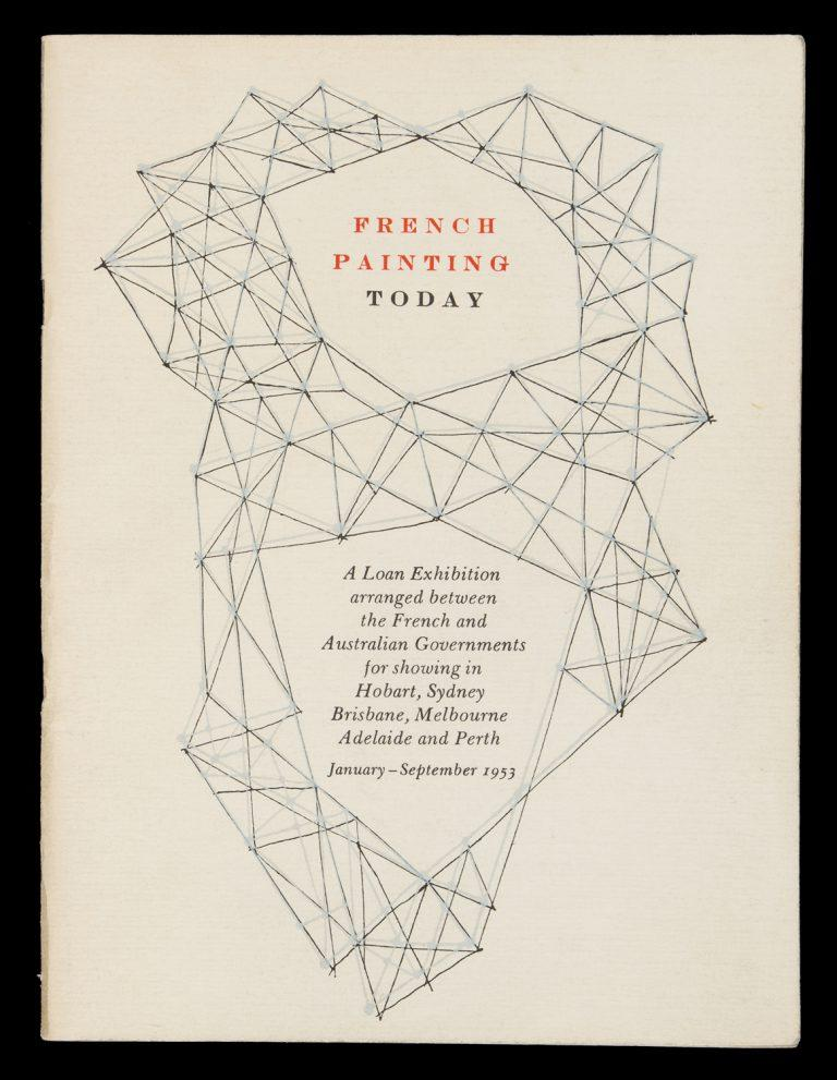 French Painting Today, cover of exhibition catalogue, 1953